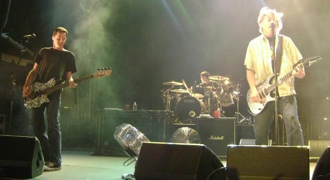 The Offspring Live @ Charlotte, NC 20-09-2008